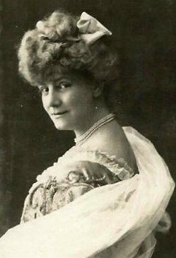 Danish actress Charlotte Wiehe 1865-1947, cropped version